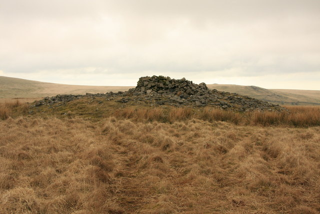 Stalldown Barrow cairn The large cairn in which is built Hillson's House. Stalldown Barrow is a megalithic site in Devon